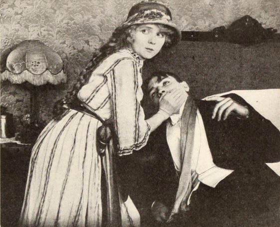 Still from the American drama film Wild Primrose (1918) with Gladys Leslie, on page 33 of the August 24, 1918 Exhibitors Herald.